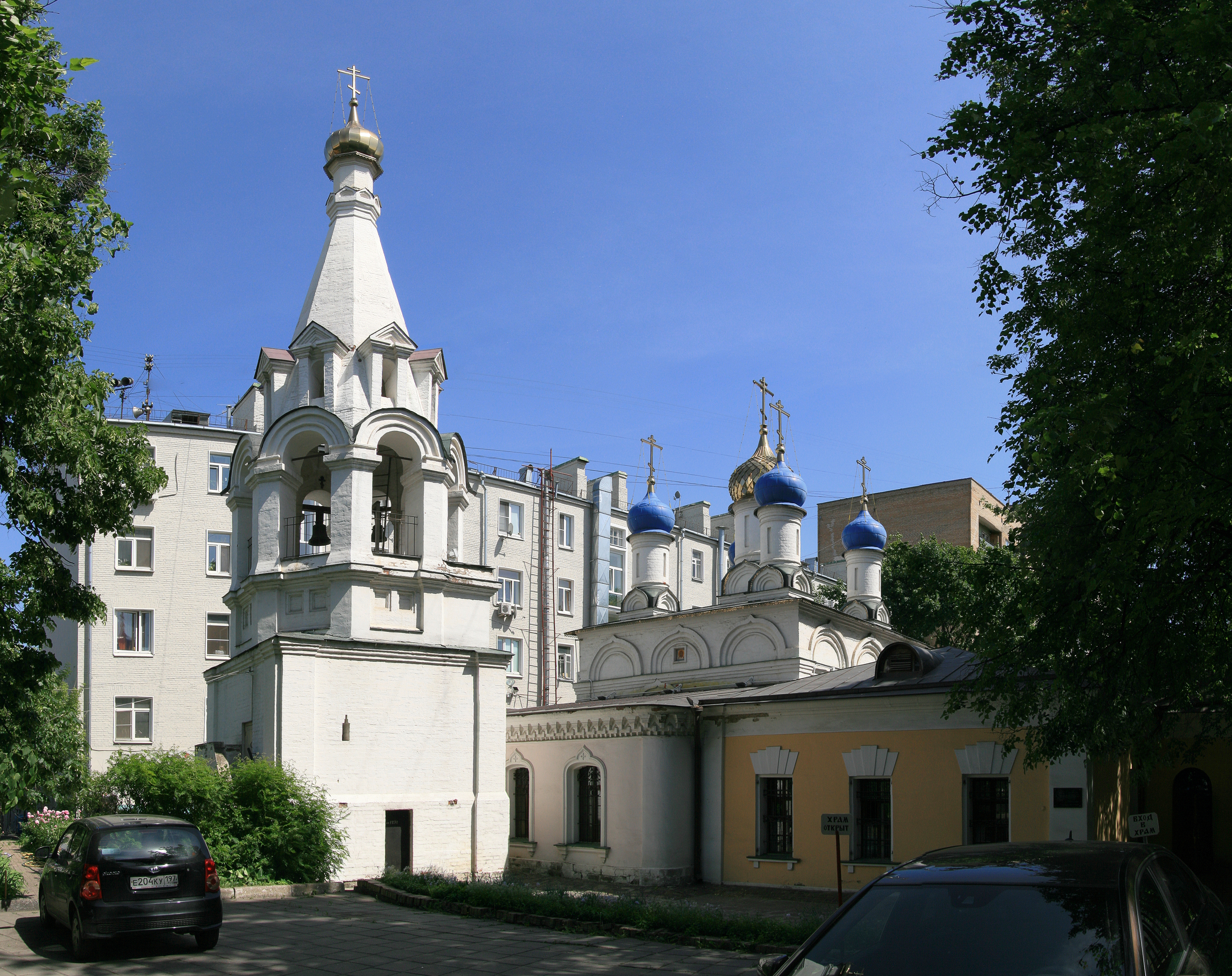 Saint Theodore Studite Church at Nikitskie Gate, Moscow